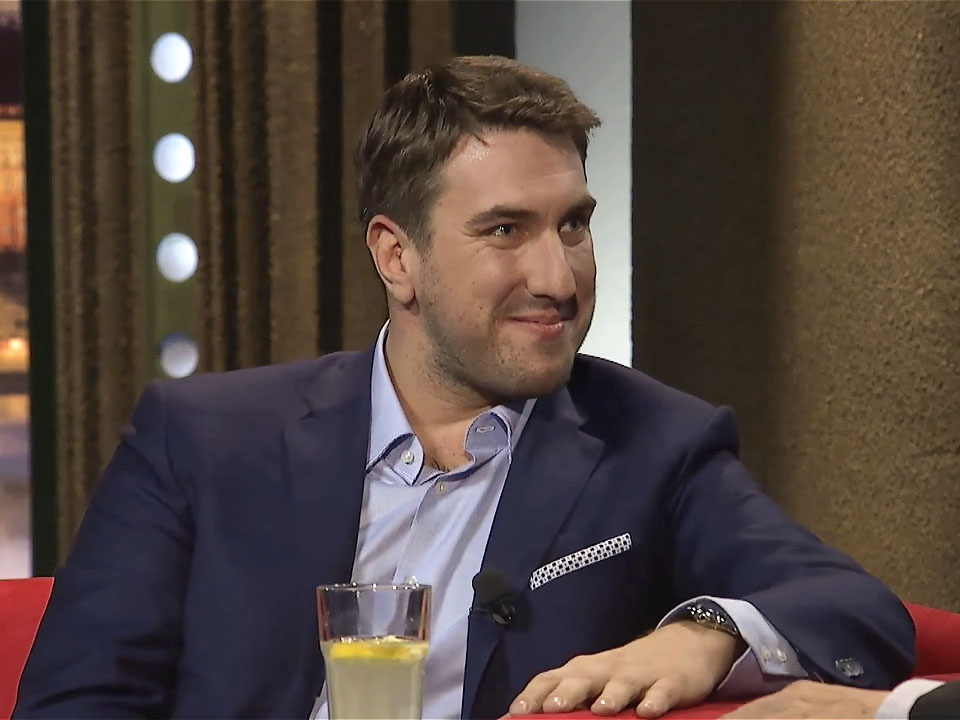 Czech businessmen Tomáš Čupr